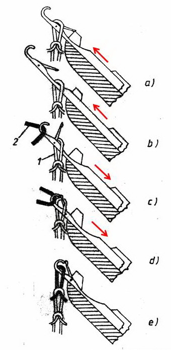 Loop formation on V-bed flat knitting machine. (1: existing loop on the needle, 2: new yarn.)